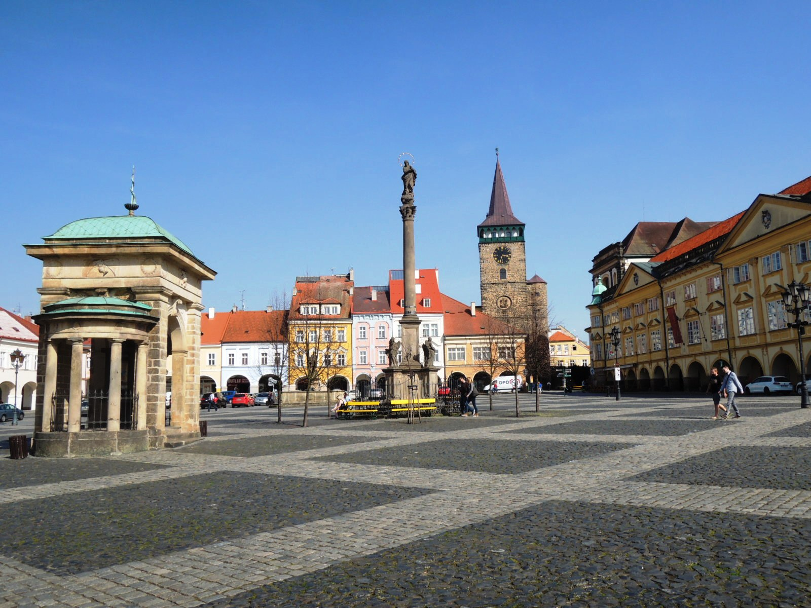 Jičín, Wallenstein Sq (raestwards)